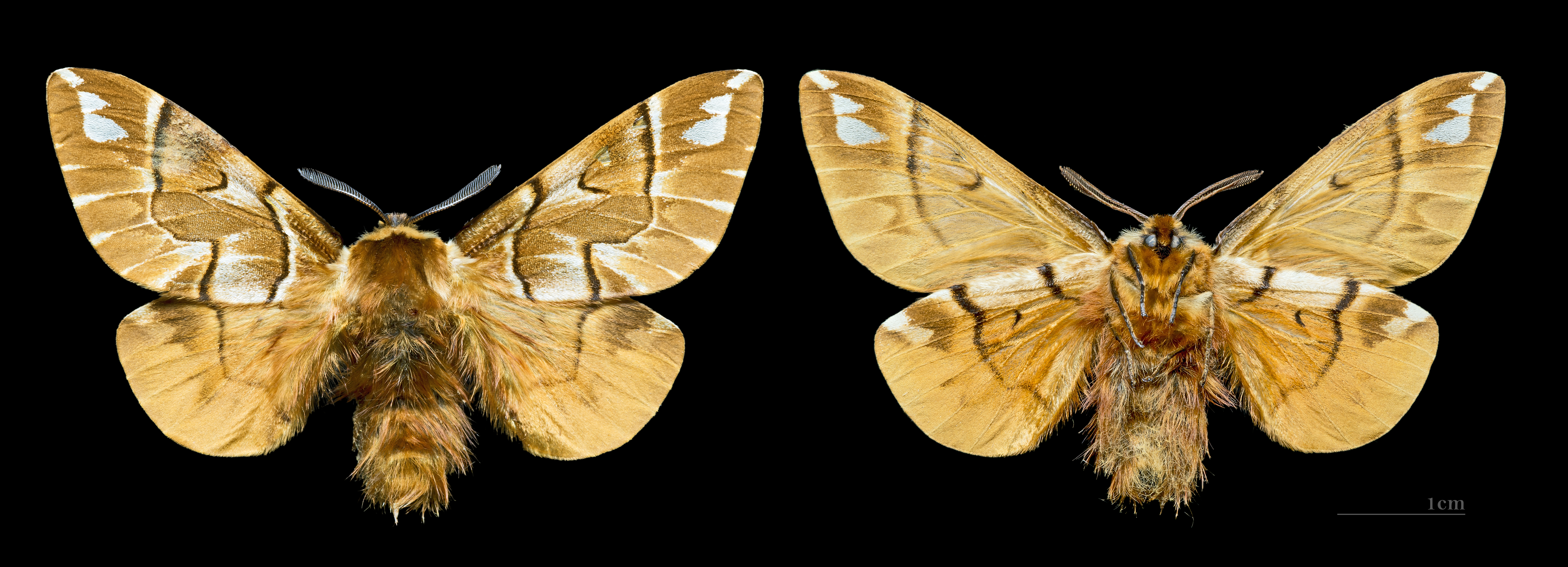 Kentish Glory. Two views of same specimen